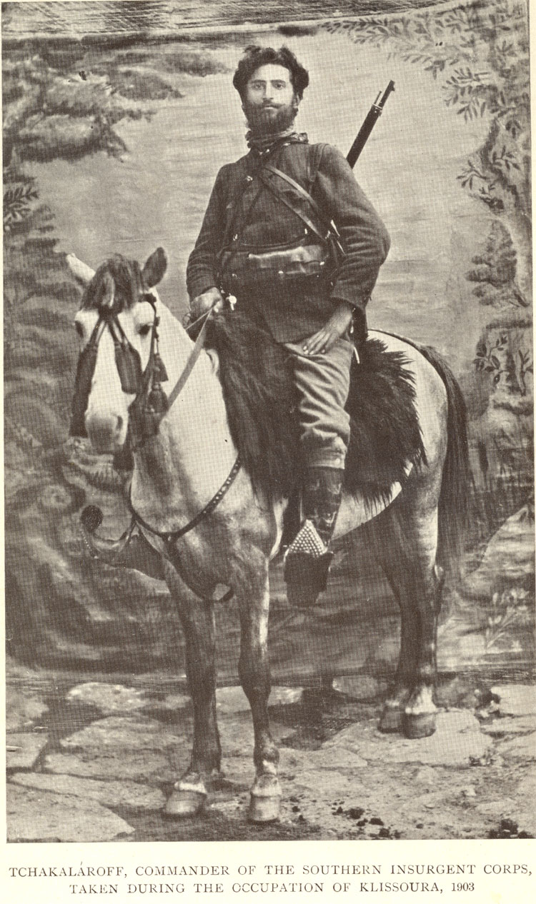 Portrait of Vasil Chekalarov on horse